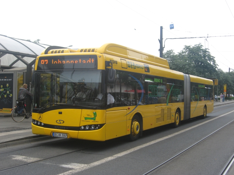 First Solaris Urbino 18 Hybrid (Allison I) bus (#460 001-4) in Dresden, Germany. Built 2006, DVB Dresden operator.